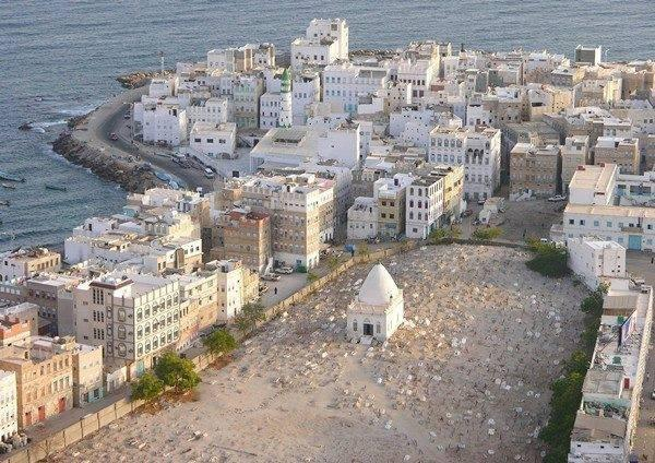 Yakob Ben Yosef tomb in Mukalla - South yemen